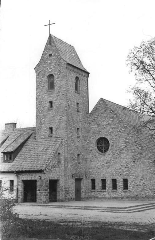 Rostock, Barnsdorf, Johanniskirche Zentralbild Pietsch 17.7.52 Die neuerbaute Johanniskirche in Rostock-Barnsdorf. Information added by Wikimedia users.Johanniskirche (Rostock), a Notkirche designed by Otto Bartning